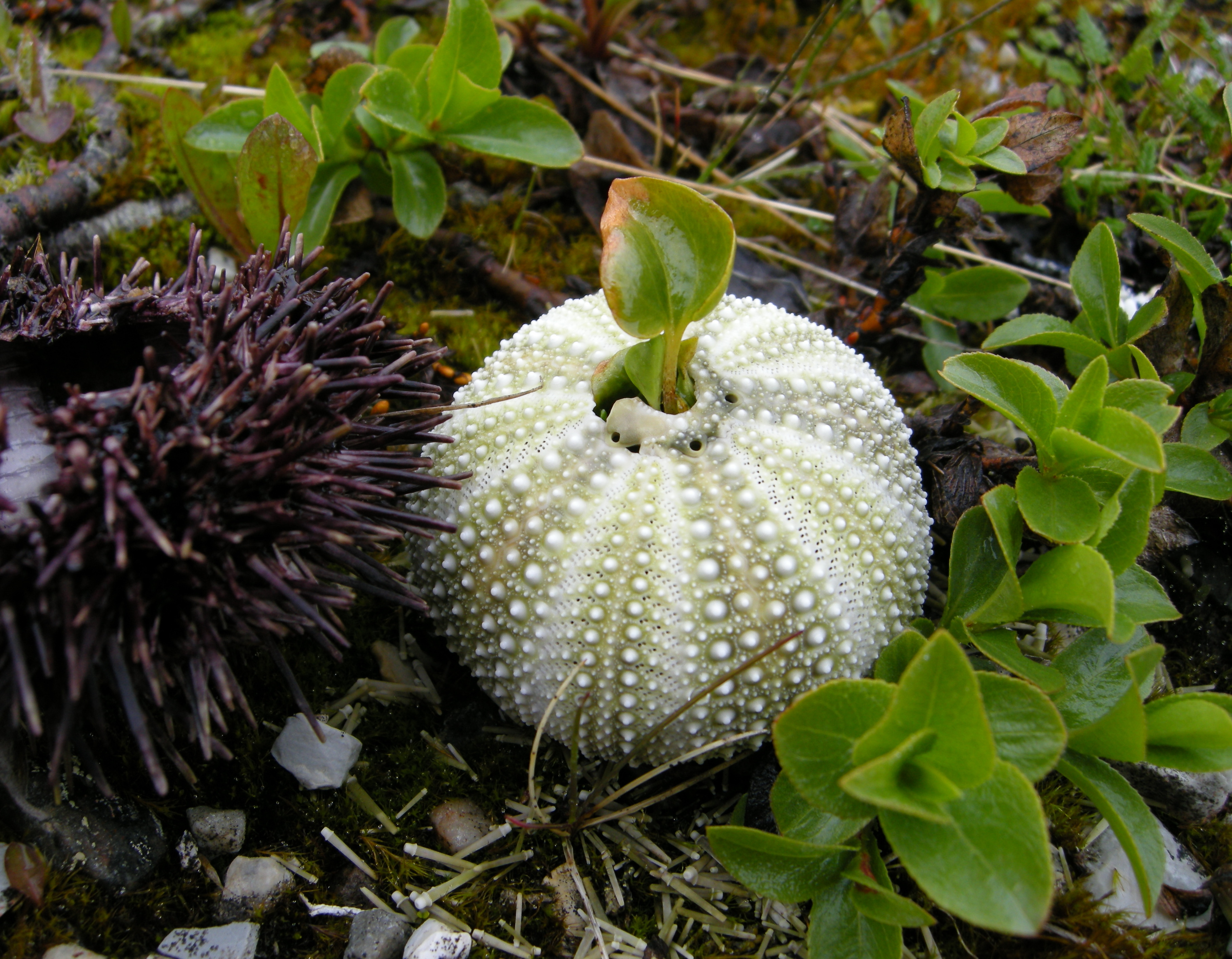 Sea urchins or urchins (North Cape, Norway)